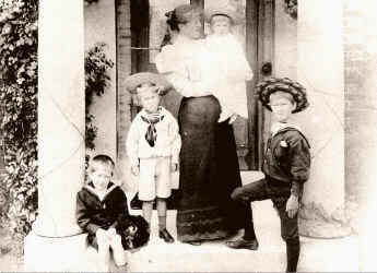 Sarah Lawrence, mother of T. E. Lawrence, and four of her five sons.